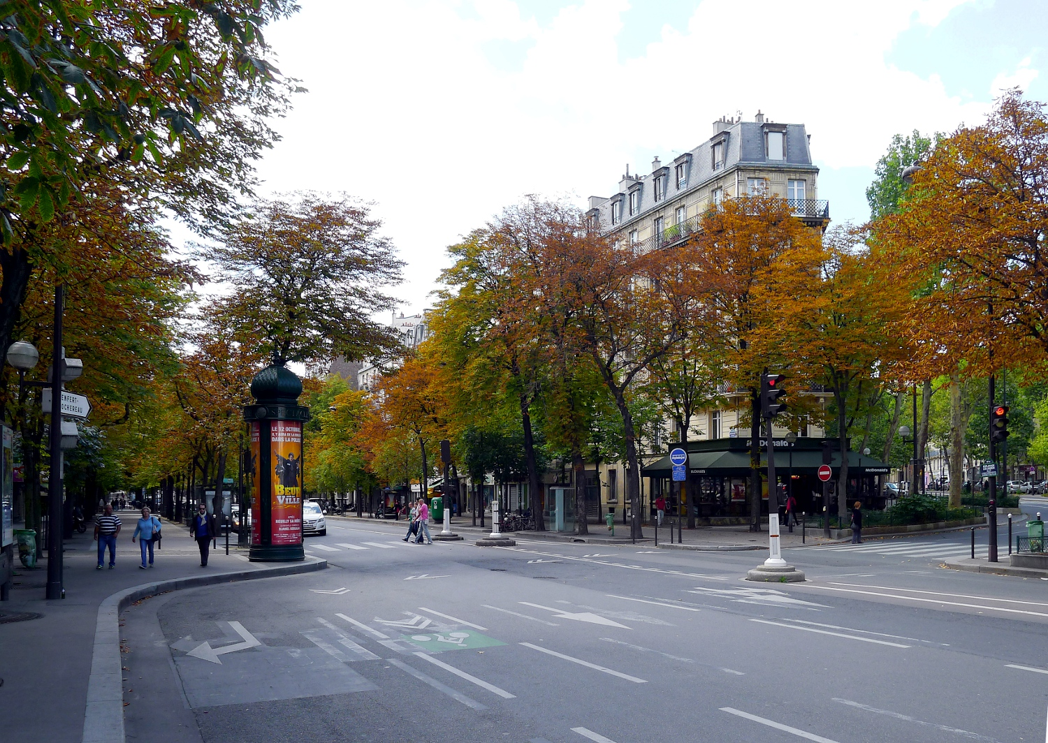 Arago boulevard - Paris